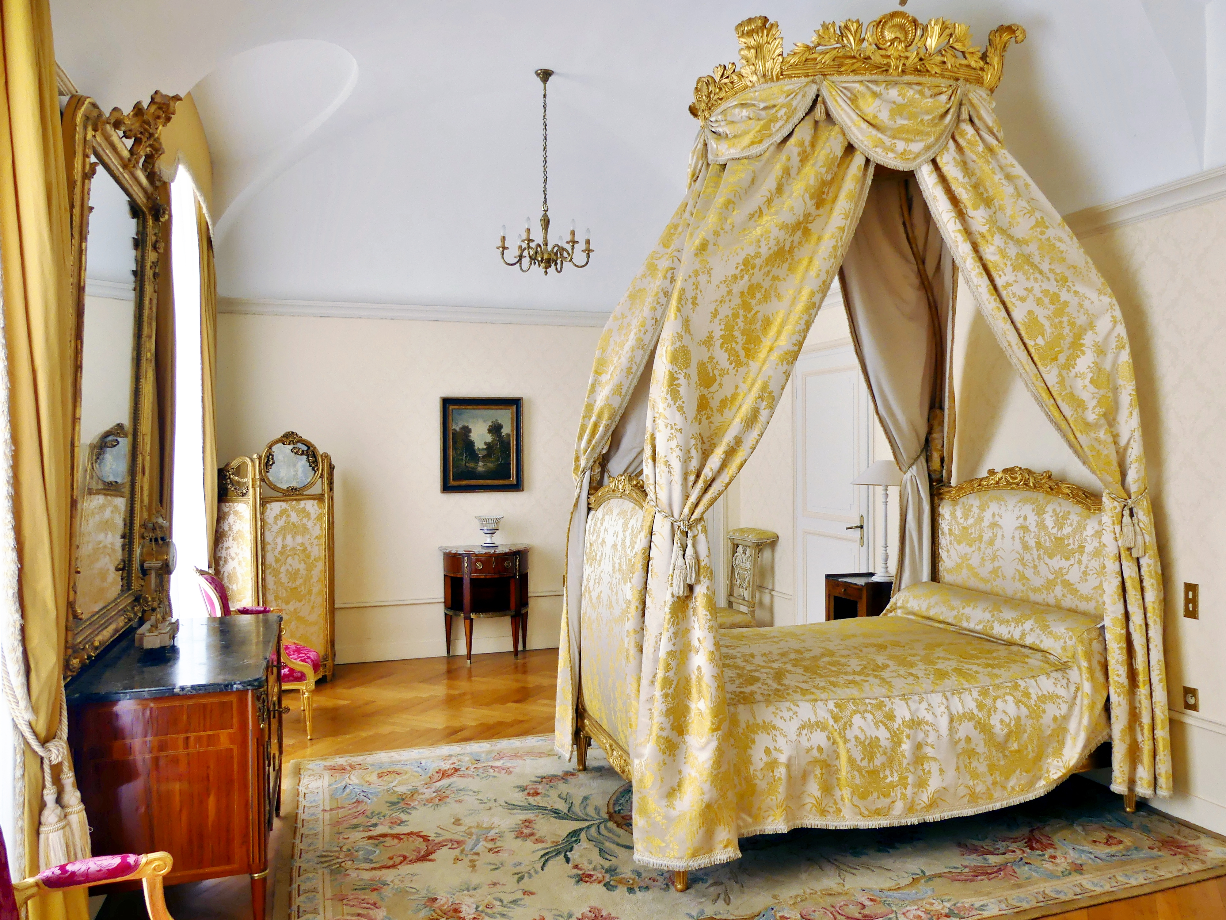 Sight of the ancient bedroom and its bed "à la polonaise" in the state rooms of the Chambéry castle, in Savoie, France.